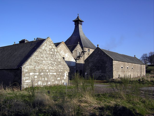 Clynelish Distillery The rear of Clynelish Distillery.